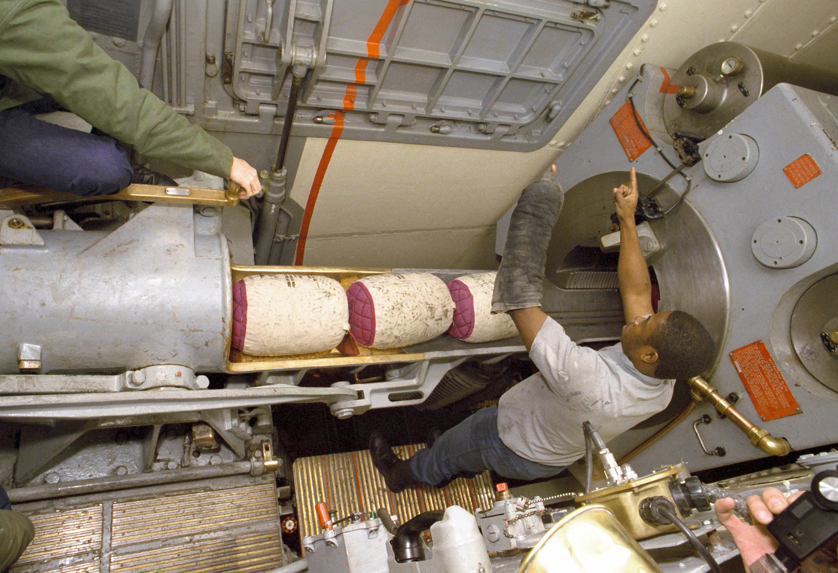 DN-SC-91-03644 - The gun captain of the center Mark 7 16-inch/50-caliber gun in the No. 2 turret aboard the battleship USS IOWA (BB-61) gives the signal to ram the powder bags on the spanning tray into the gun's chamber. The crew is loading what will be the 1,000th round fired by the IOWAs 16-inch guns since the ship's recommissioning. The panel opposite the gun captain with the red line is the door to the powder hoist from which the bags are delivered to the gun from the powder room at the base of the turret. At left, the rammerman operates the lever which uses hydraulics to ram the projectiles and powder bags into the gun's breech. The rammerman must carefully operate the ram lever as an overram could jam the powder bags and/or projectile too far into the gun, causing a dangerous situation. On 19 April 1989 this same gun exploded and killed 47 crewmembers in the turret. The explosion is theorized to have been caused by an overram of five bags of D-846 powder.